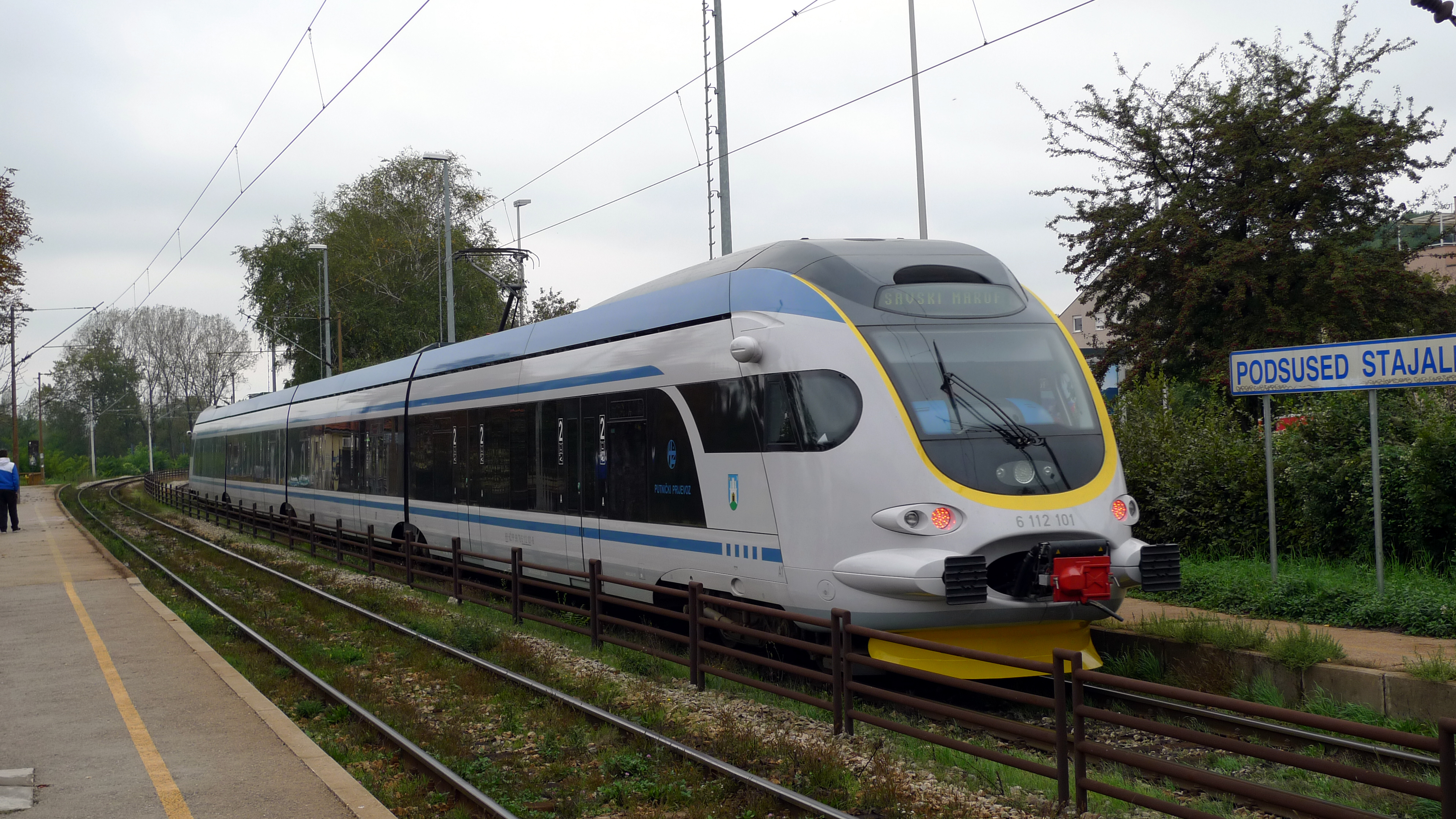 HŽ Class 6112 in Podsused. View of the back of the train.